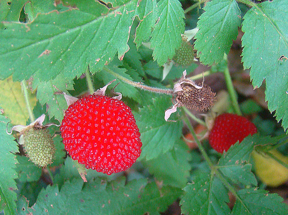 Also known as the West Indian Raspberry, and widespread from an East Asian origin. Naturalized through much of the Neotropics. Leaves used for a herbal tea. Photo from Monteverde, Costa Rica. In context at